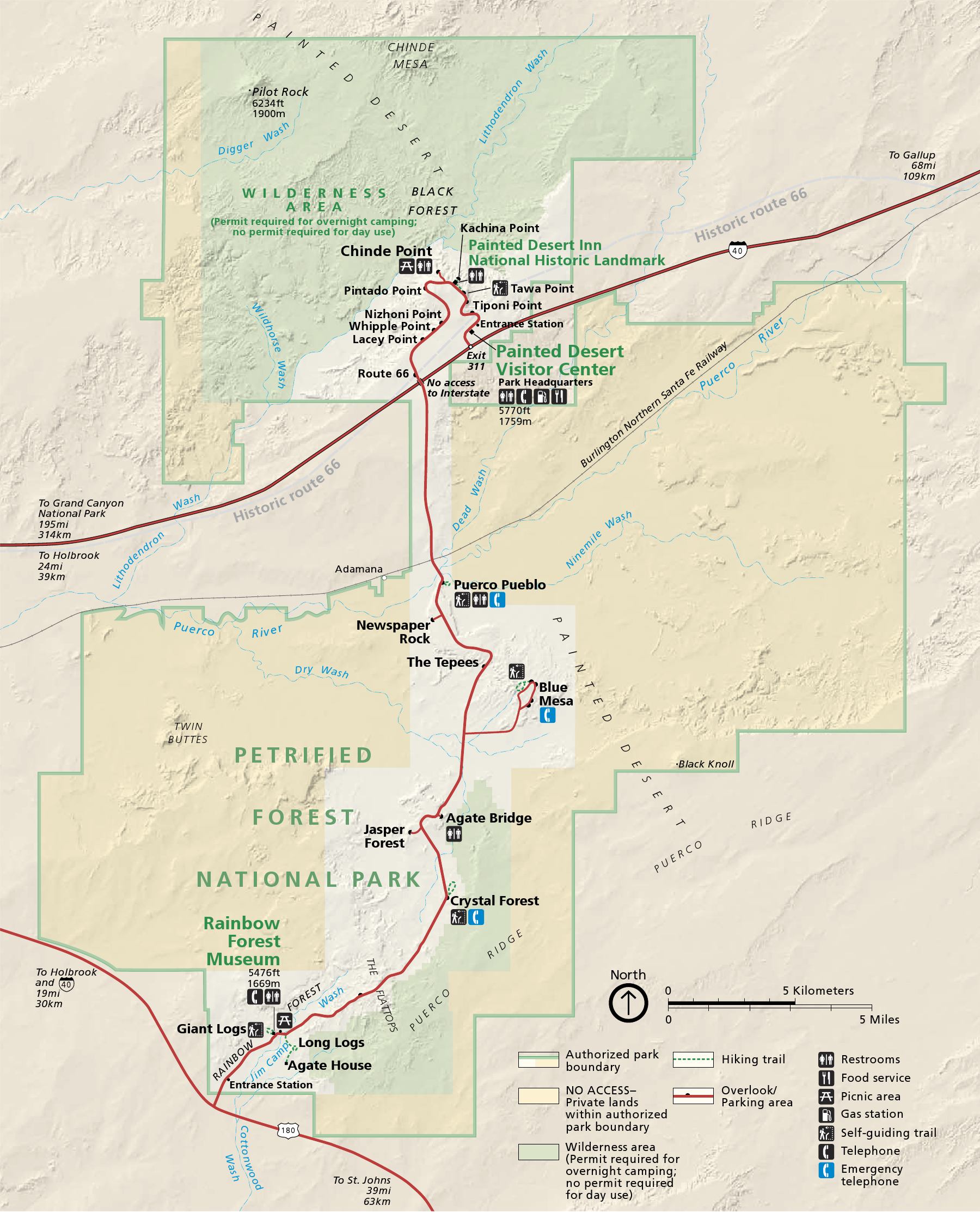 Map of Petrified Forest National Park — in northeastern Arizona, United States. The park is made of colorful and highly erodable Chinle Formation deposits; a 200 Ma year non-deposition occurred at the park, then the Bidahochi Formation, lake deposits and later volcanic tuffs (air fall deposits). The Bidahochi Formation is erosion-resistant and can form caprocks on specific landforms, or landslide deposits at their base and flanks.